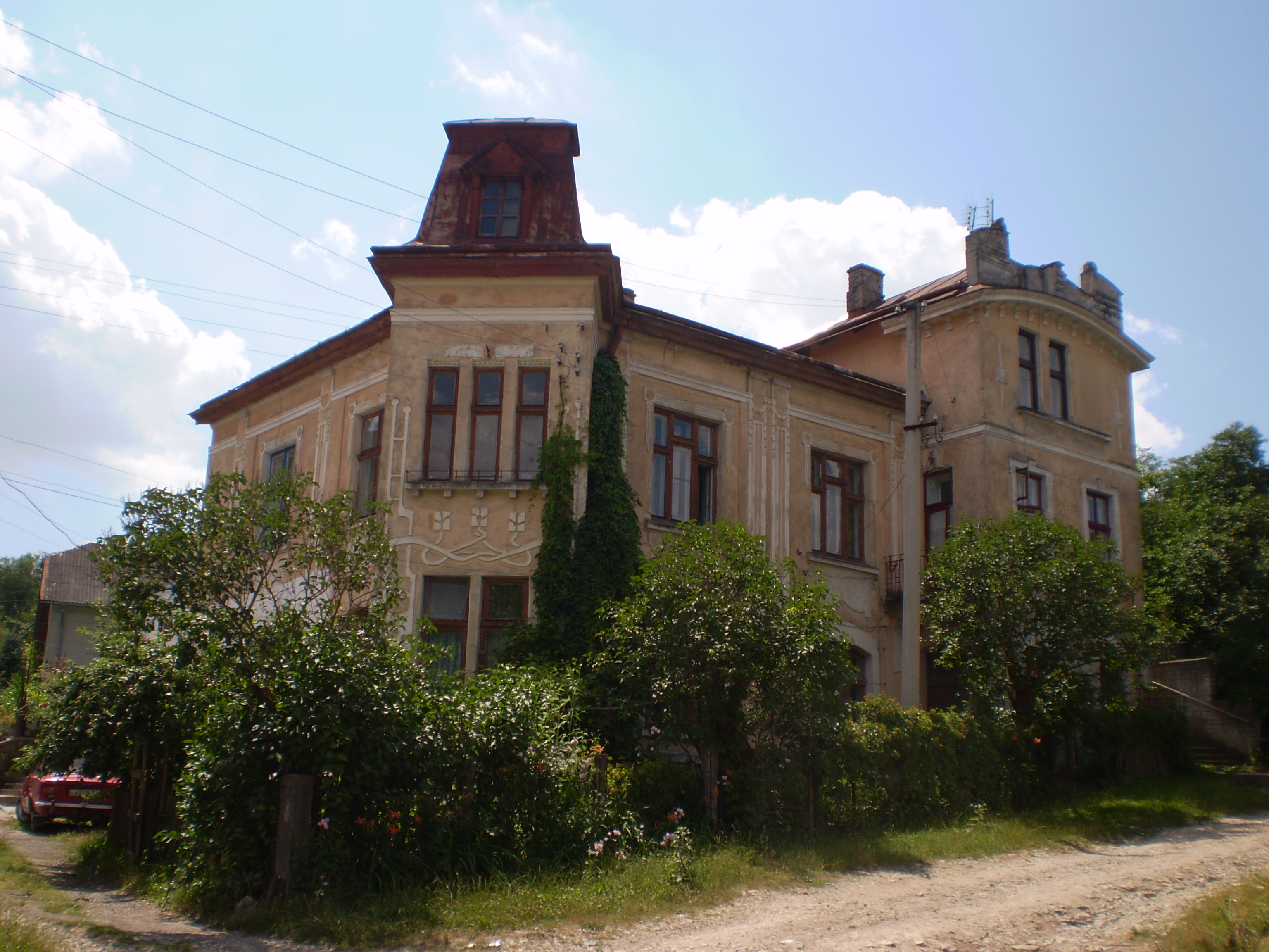 The old mansion of Zakrzewski (a polish achitect), Yurchakiv Street, 19